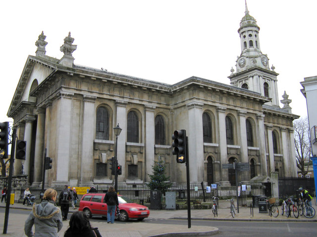 St. Alphege's Church, Greenwich This large baroque church was built between 1712 and 1714, mainly to a design by Hawksmoor. St. Alphege is not one of the better known saints. Born at Weston, near Bath in 953 AD, he became a monk and eventually, Archbishop of Canterbury. He was essentially a peacemaker.